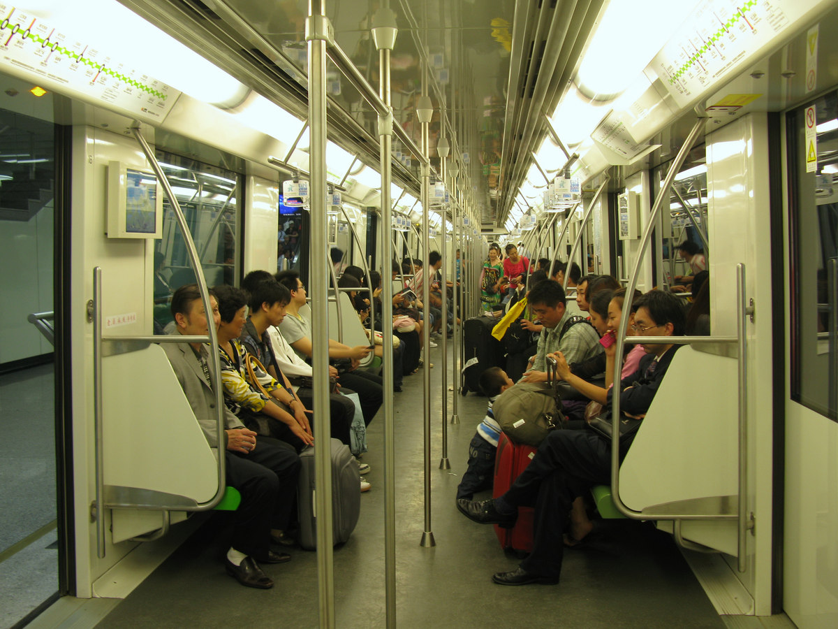 Interior of Shanghai Metro Line 2 AC17B Train